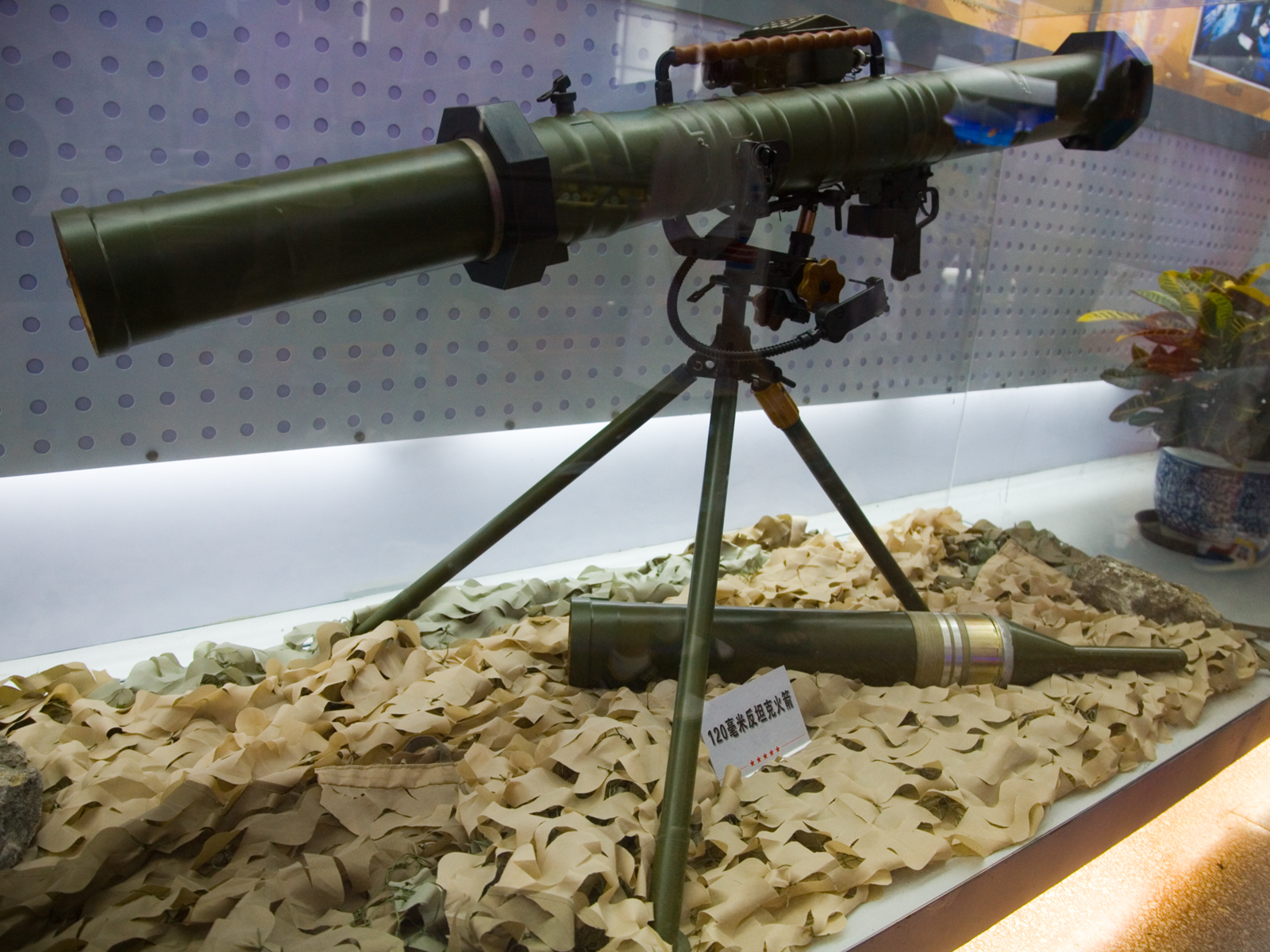 A PF98 Rocket launcher at the Chinese "Our Troops Towards the Sky" exhibition in Beijing in 2007